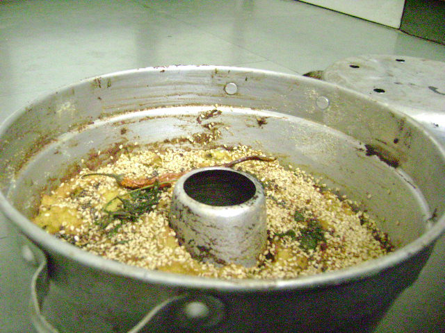 This is an image of a Gujarati dish called Handvo